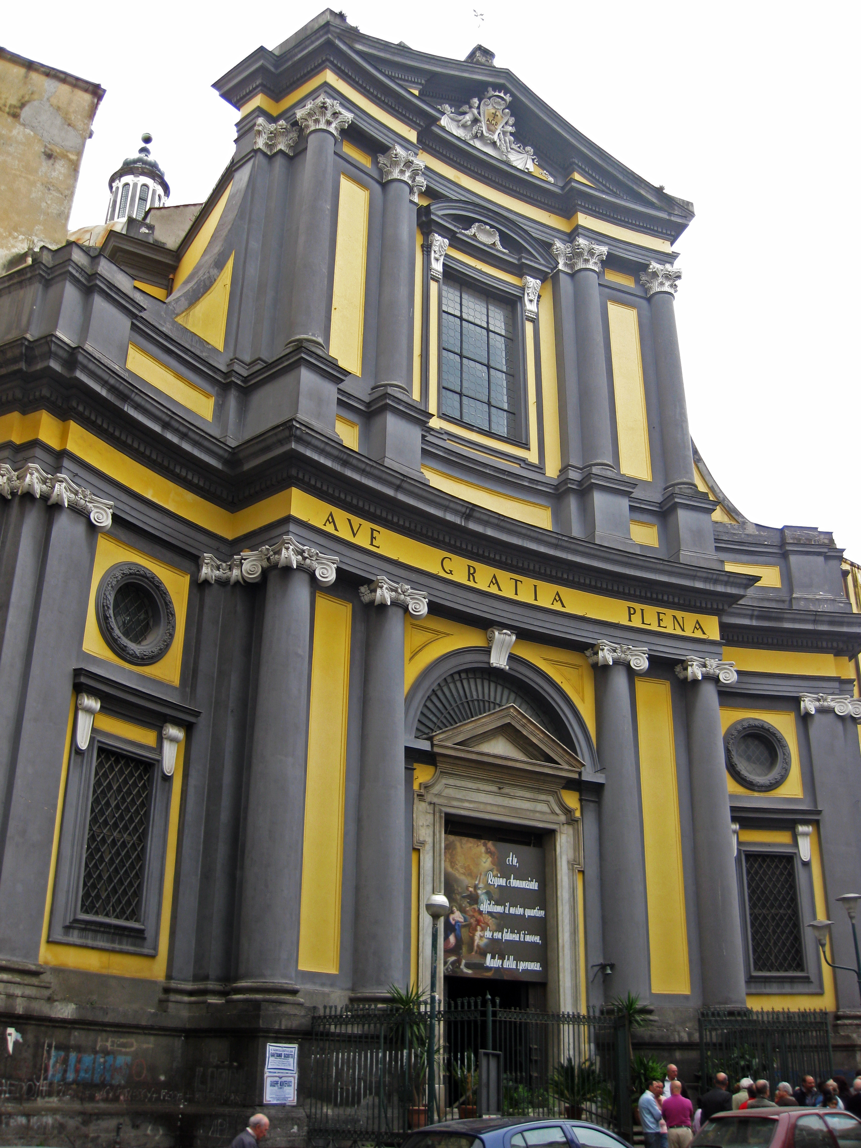 I know nothing about this place; no idea if it has historical significance! Just a church I happened to walk by while in Naples.